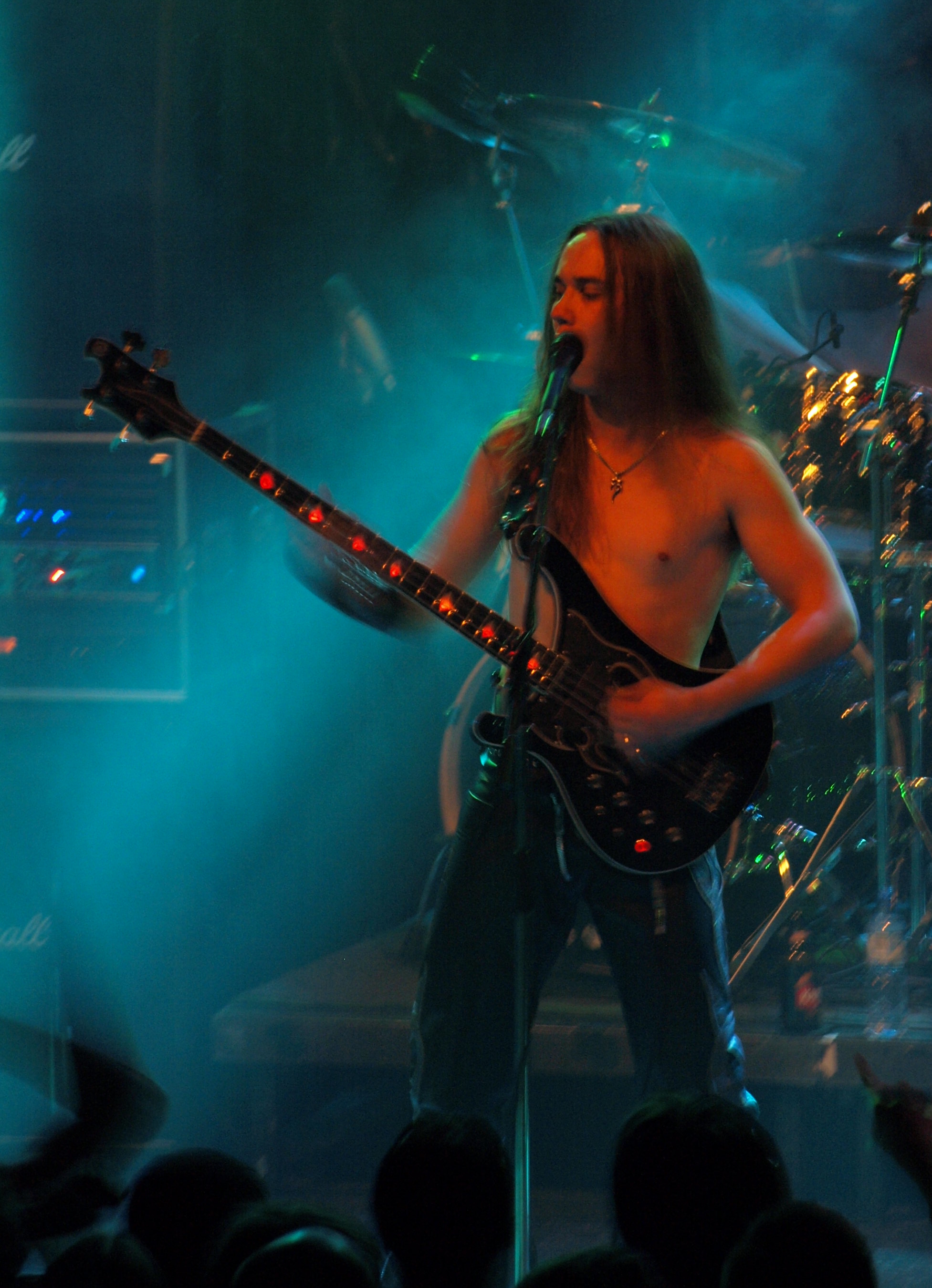 Finnish heavy metal band Teräsbetoni live